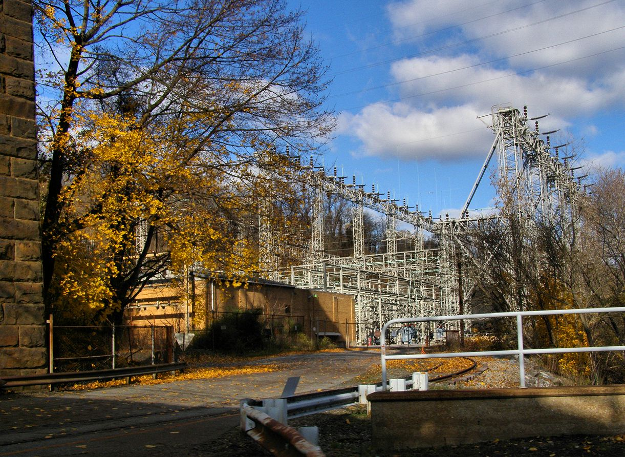 Railroad substation at the Safe Harbor Dam contains 8 transformers that step-up the 25 Hz to 132,000 volts for long distance transmission as part of Amtrak's 25 Hz Traction Power System.